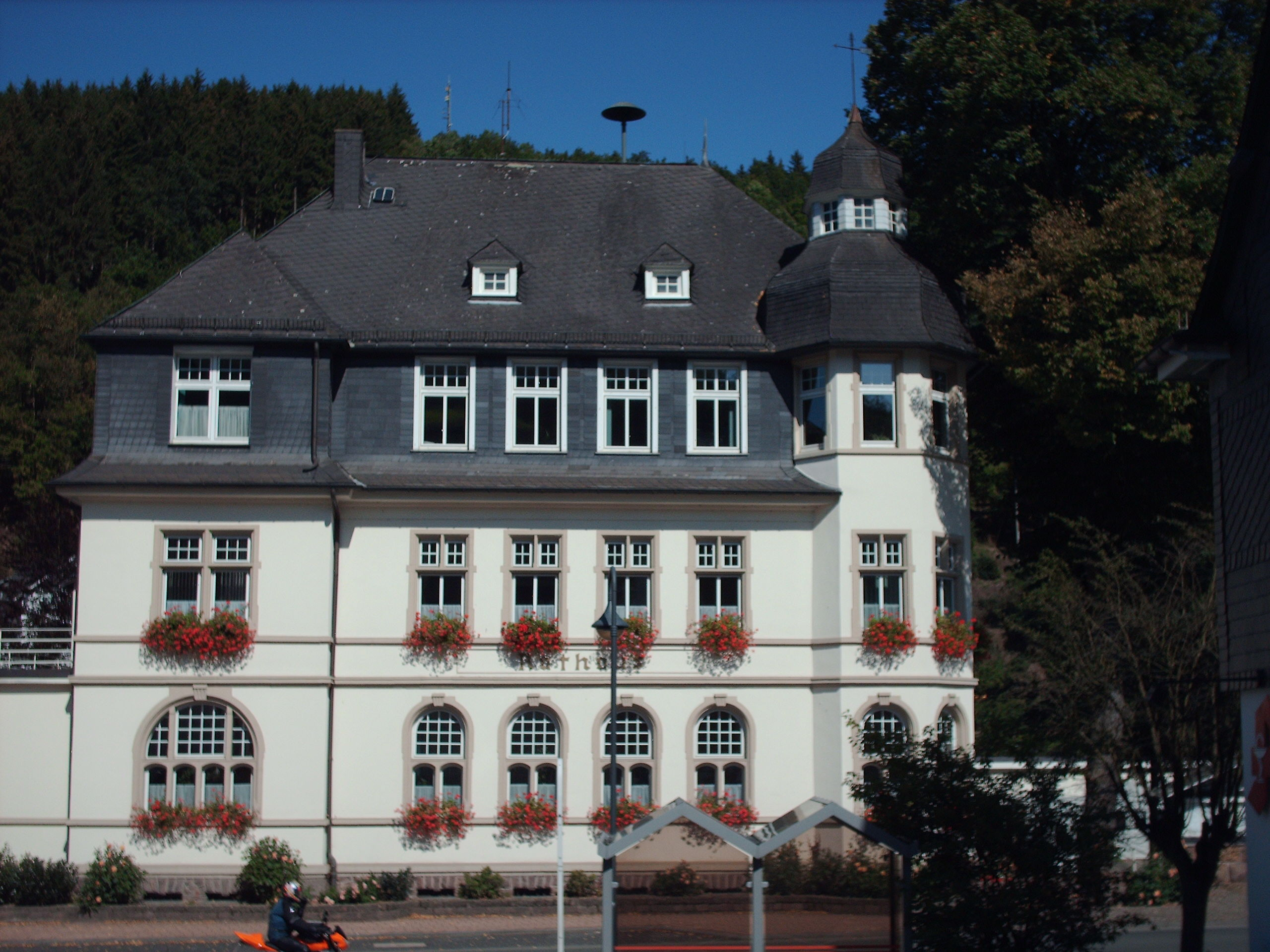 Town hall, Kirchhundem, Germany check usage